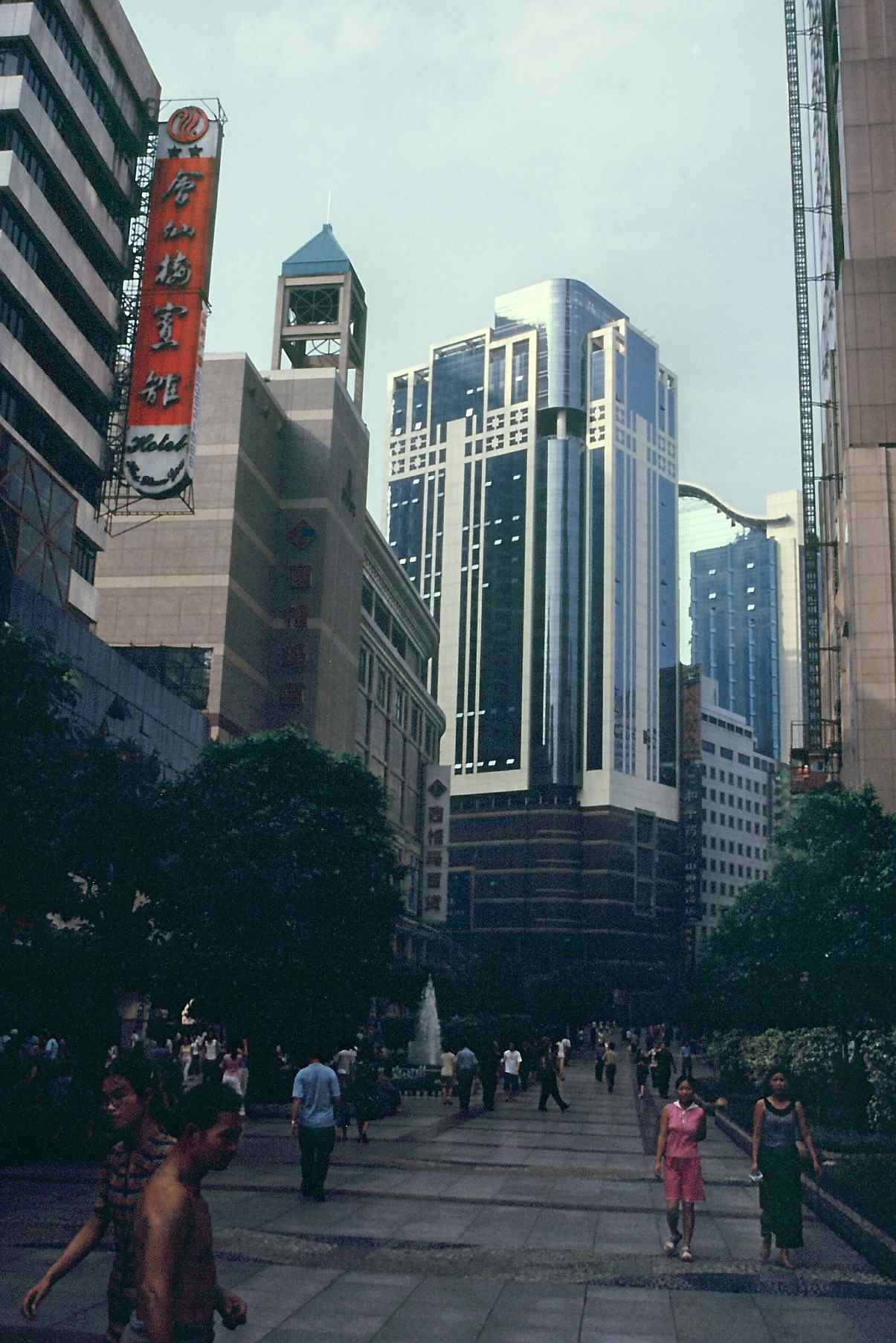 City of Chonging, China